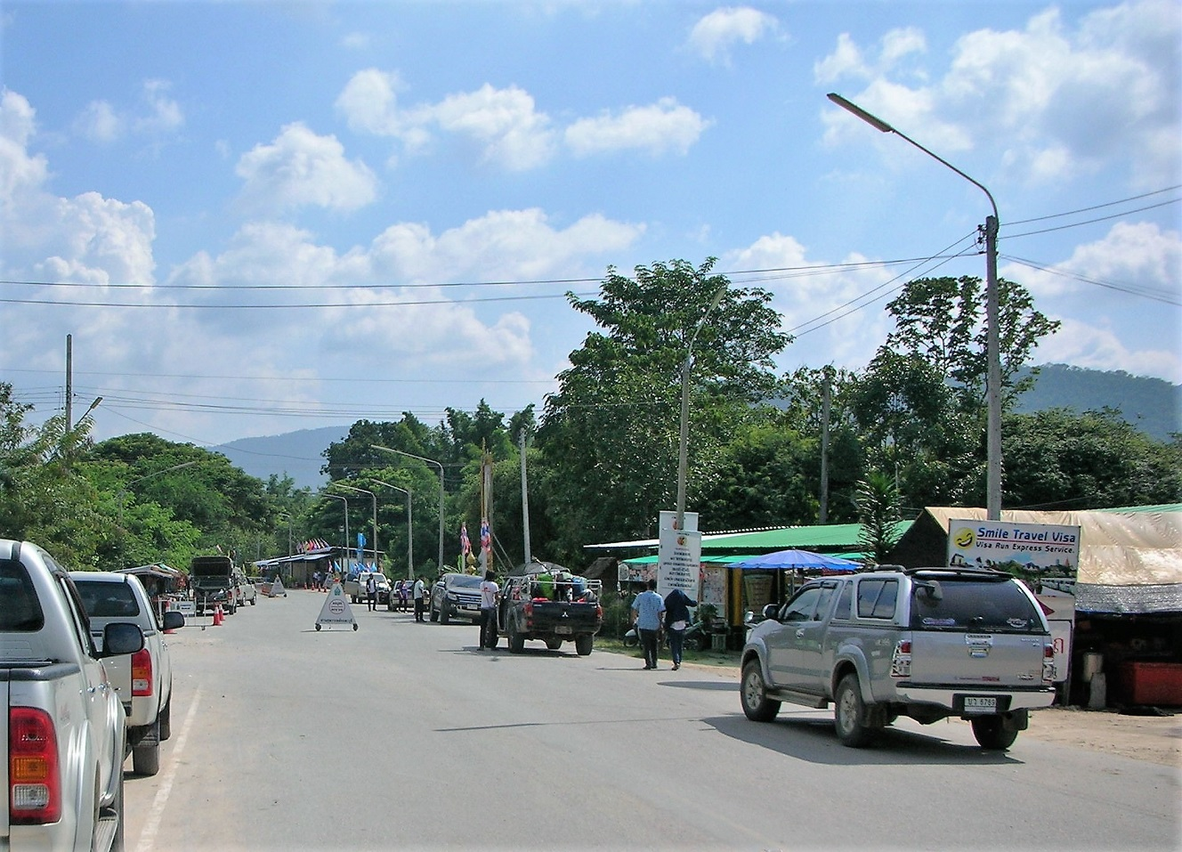 Phu Nam Ron border post